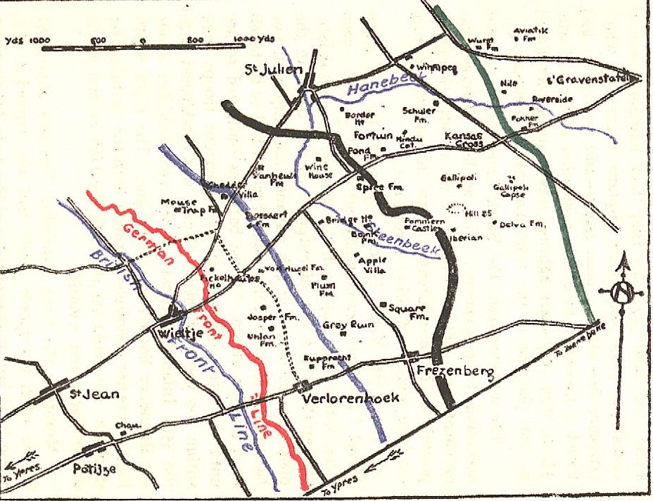 The objectives of the 55th (West Lancashire) Division during the Battle of Pilckem Ridge. The British frontline is the annotated blue line, and the annotated red line is the German frontline/outpost positions. The thick blue line represents the limit of the division's first objective the battle: the first system of German frontline trenches including the outpost line. The thick black line represents the German second line of trenches and the division's objective of the battle. The green line represents the German third line of trenches and the division's ultimate objective of the day.